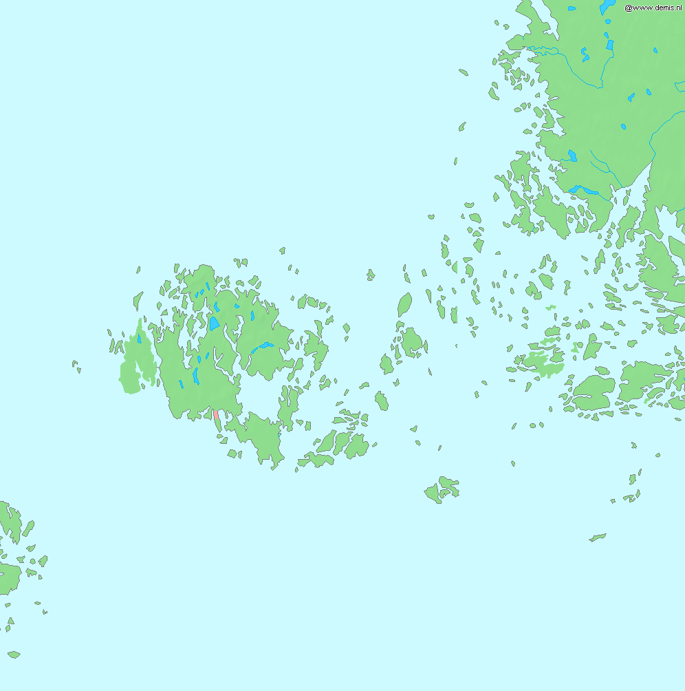 Map of Åland. Bounding box West 19°, South 59.5°, East 22°, North 61°.